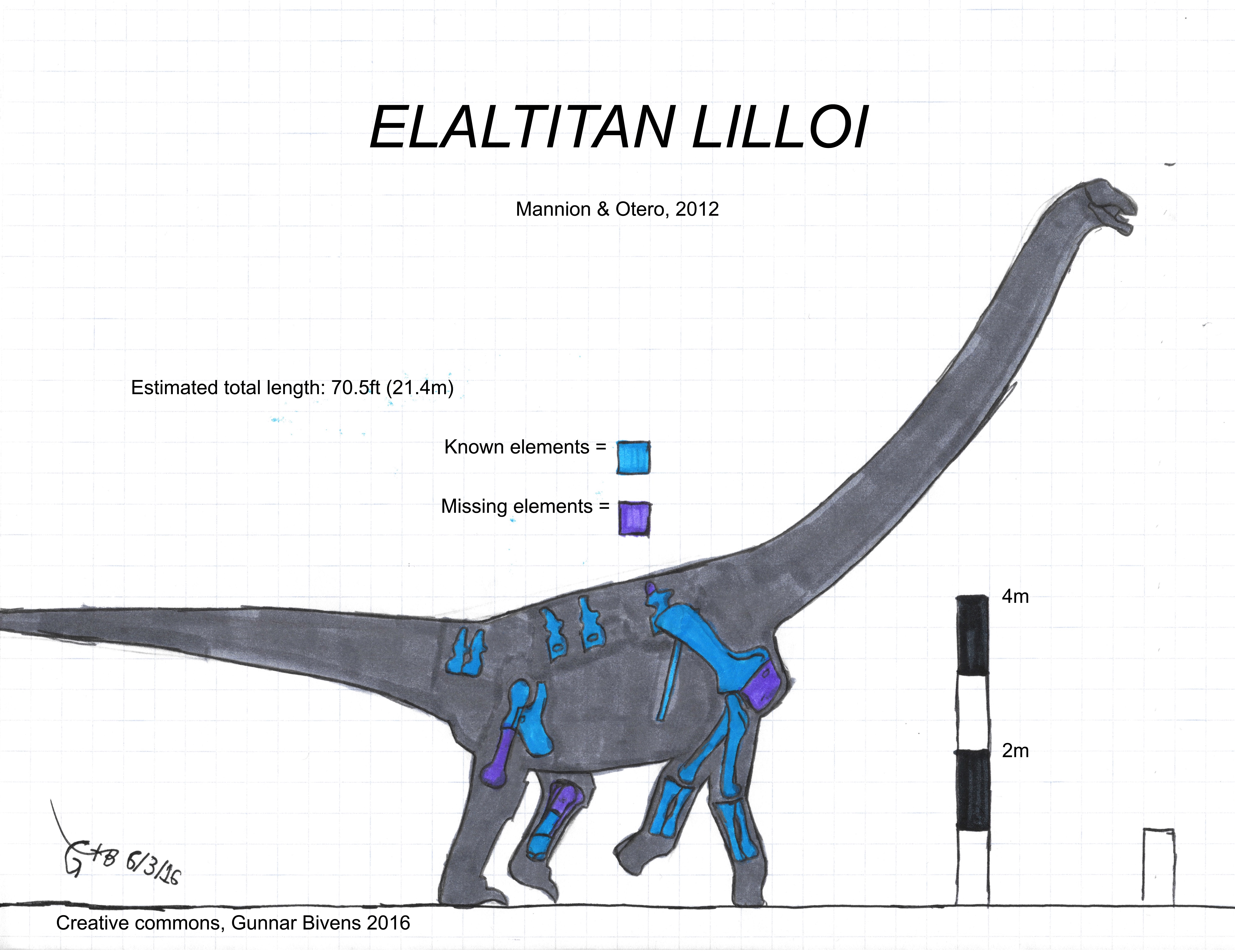 Skeletal restoration, much better than the first version